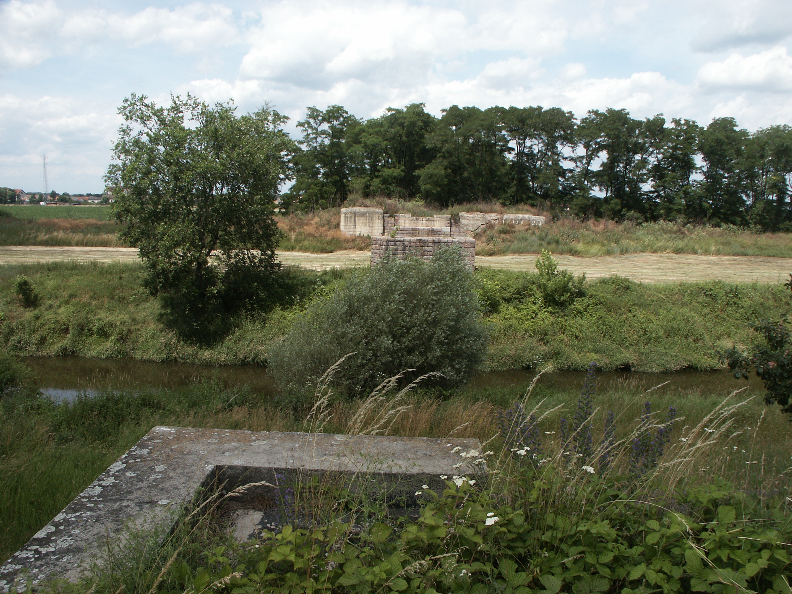 Former railway bridge over Thaya (Dyje) between Laa an der Thaya and Hevlín. Light border fortifications attached to the north pillar.